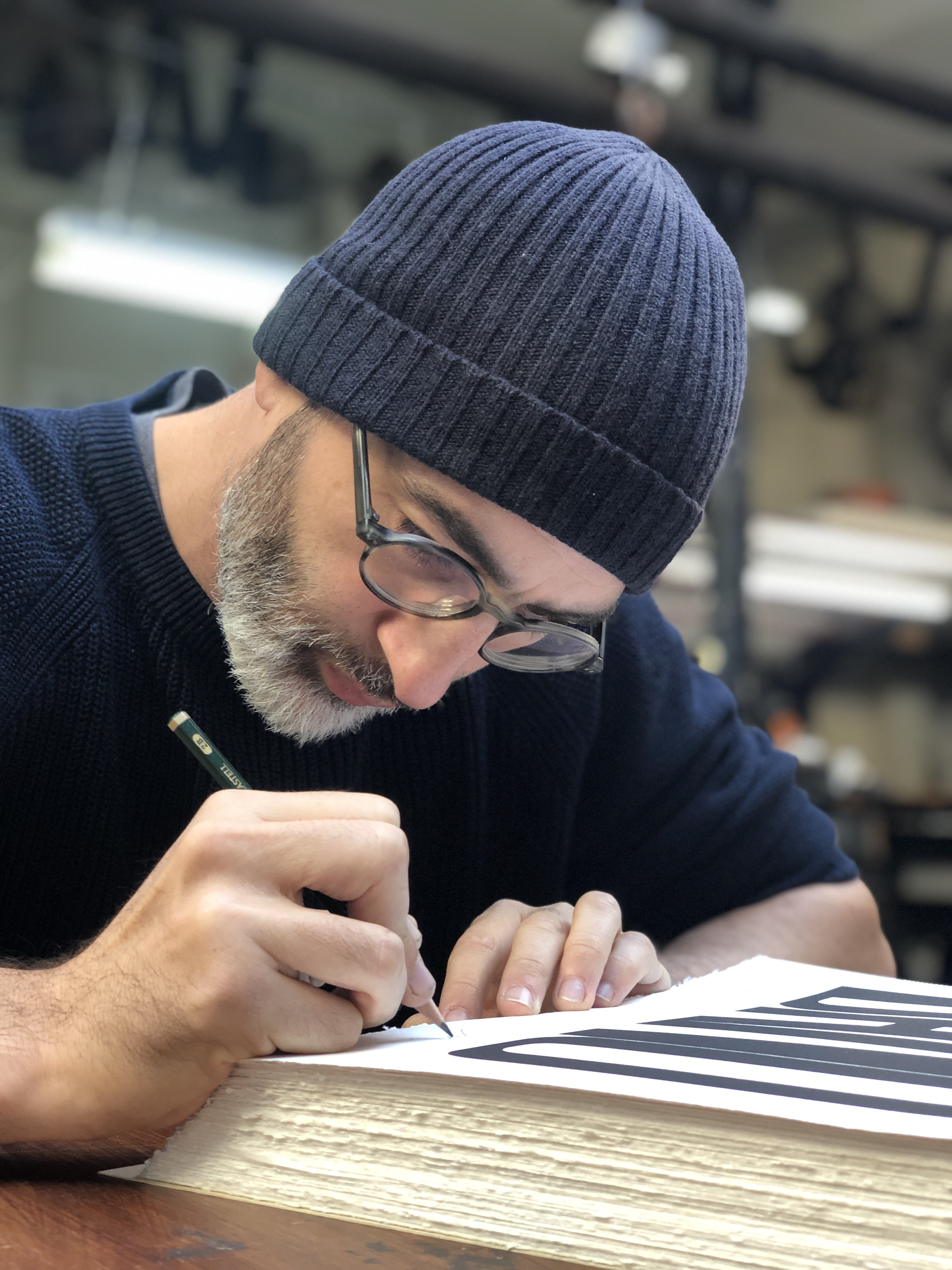 Portrait of the comics artist Merwan signing his BANG print at Idem studio in Paris (2019)